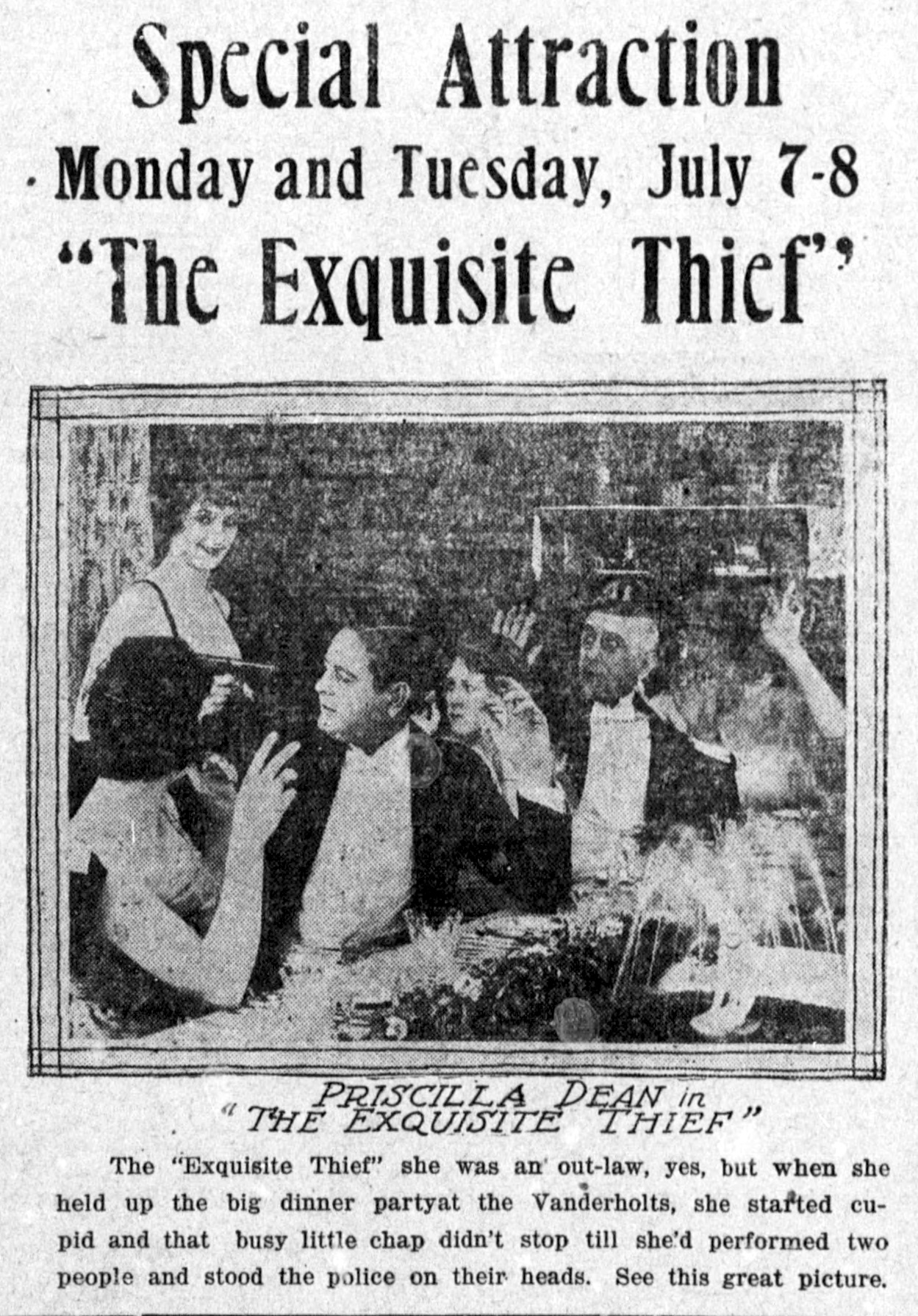 The Exquisite Thief is a 1919 American silent drama film directed by Tod Browning. Newspaper advert for the film.